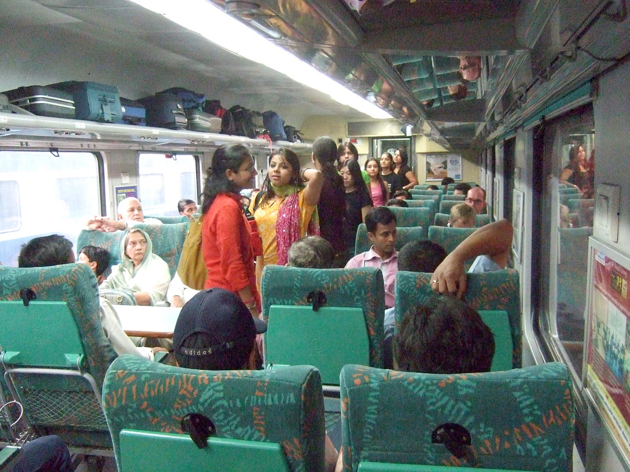 Bhopal Shatabdi Express (Indian Railways)